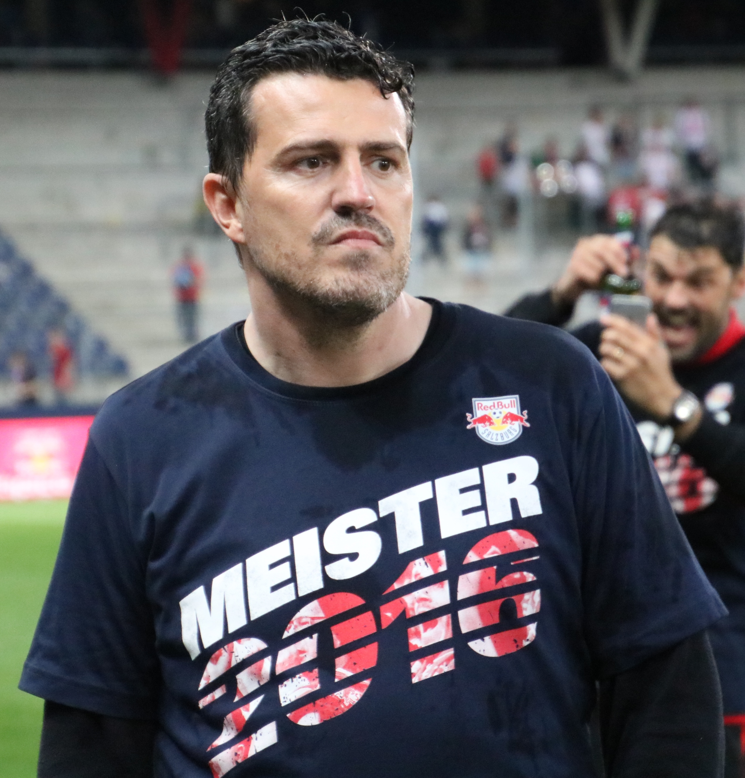 league match Bundesliga Austria 34th round